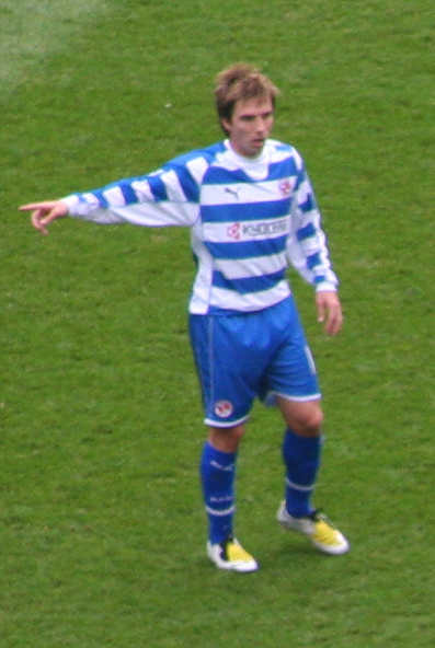 Arsenal vs. Reading at The Emirates Stadium - Saturday 19th April, 2008